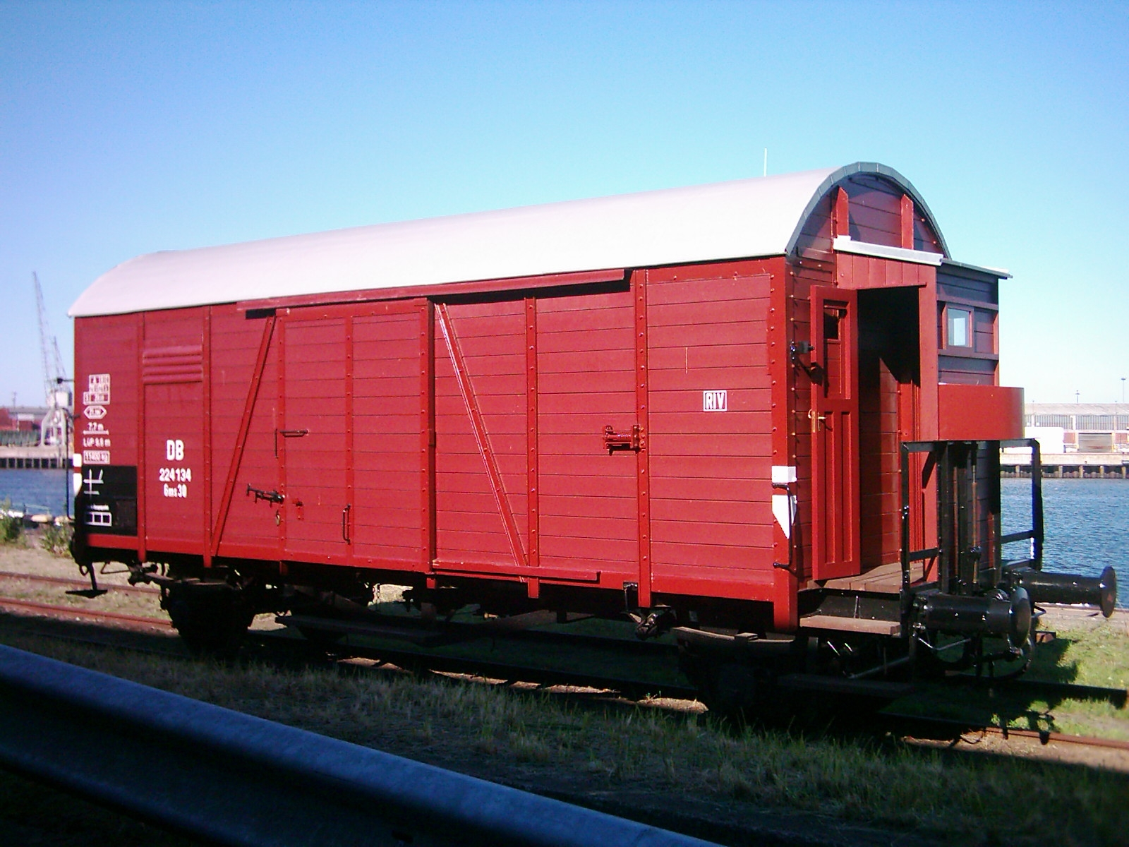 German rail car.